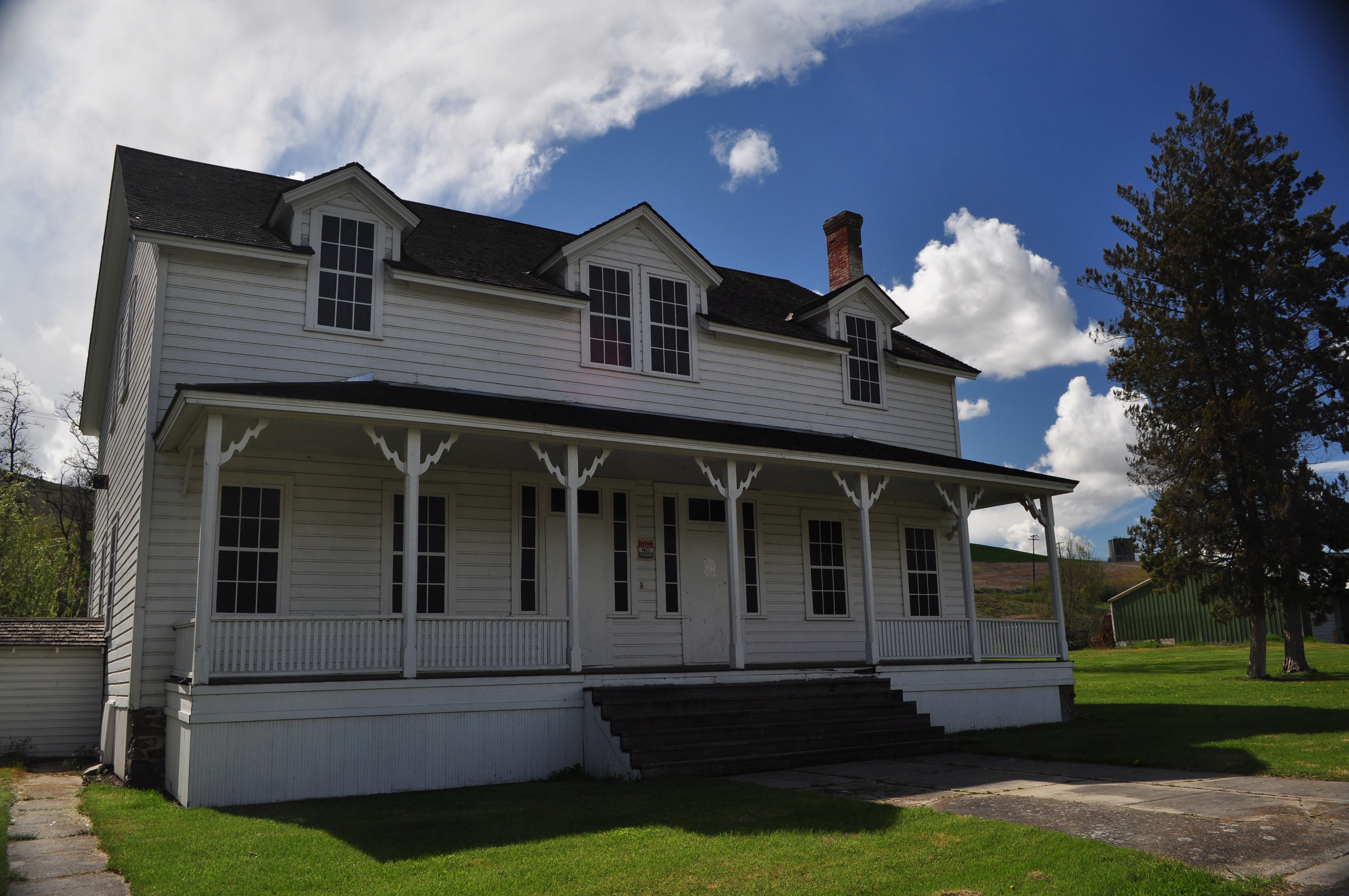 Along the Nez Perce National Historic Trail, Fort Lapwai, Lapwai, Idaho. US Forest Service photo, by Roger Peterson